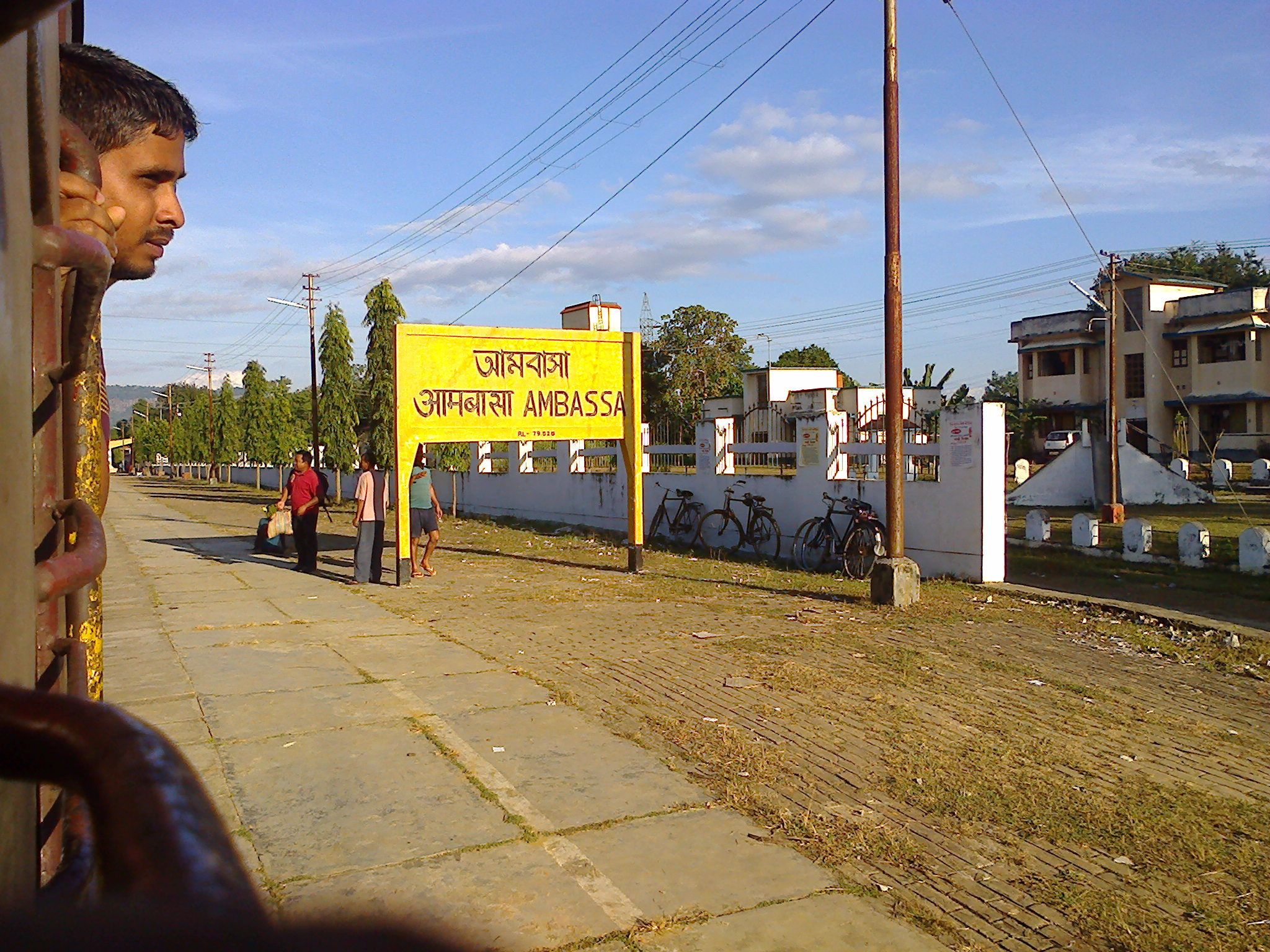 Ambassa is an important Railway Station in Tripura